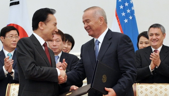 President Lee Myung-Bak on a state visit on May 10 2009 on the invitation of the President of Uzbekistan Islam Karimov